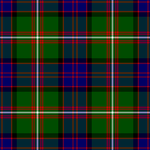 Clanranald tartan, as published in the Vestiarium Scoticum. Modern thread count: B10 R4 B30 R4 Bk16 G52 R6 G2 R4 G6 W6.